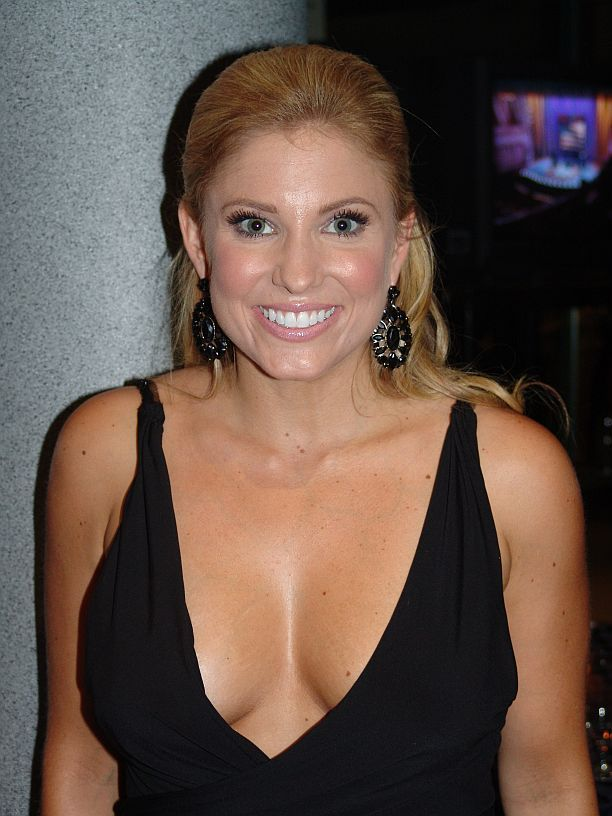 From Fords theater event " American Celebration " Wash D.C. 2005